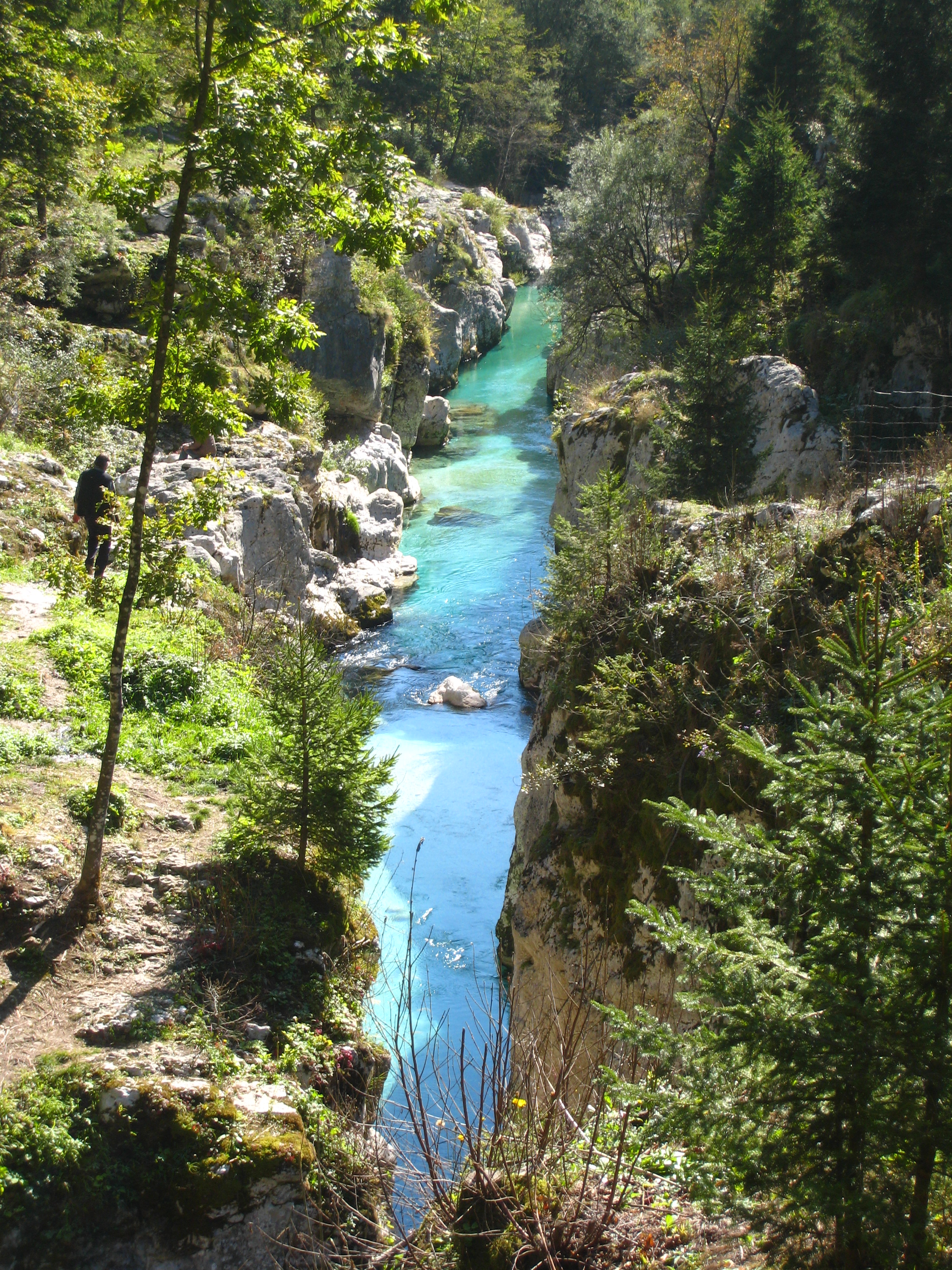 Isonzo in Trenta valley